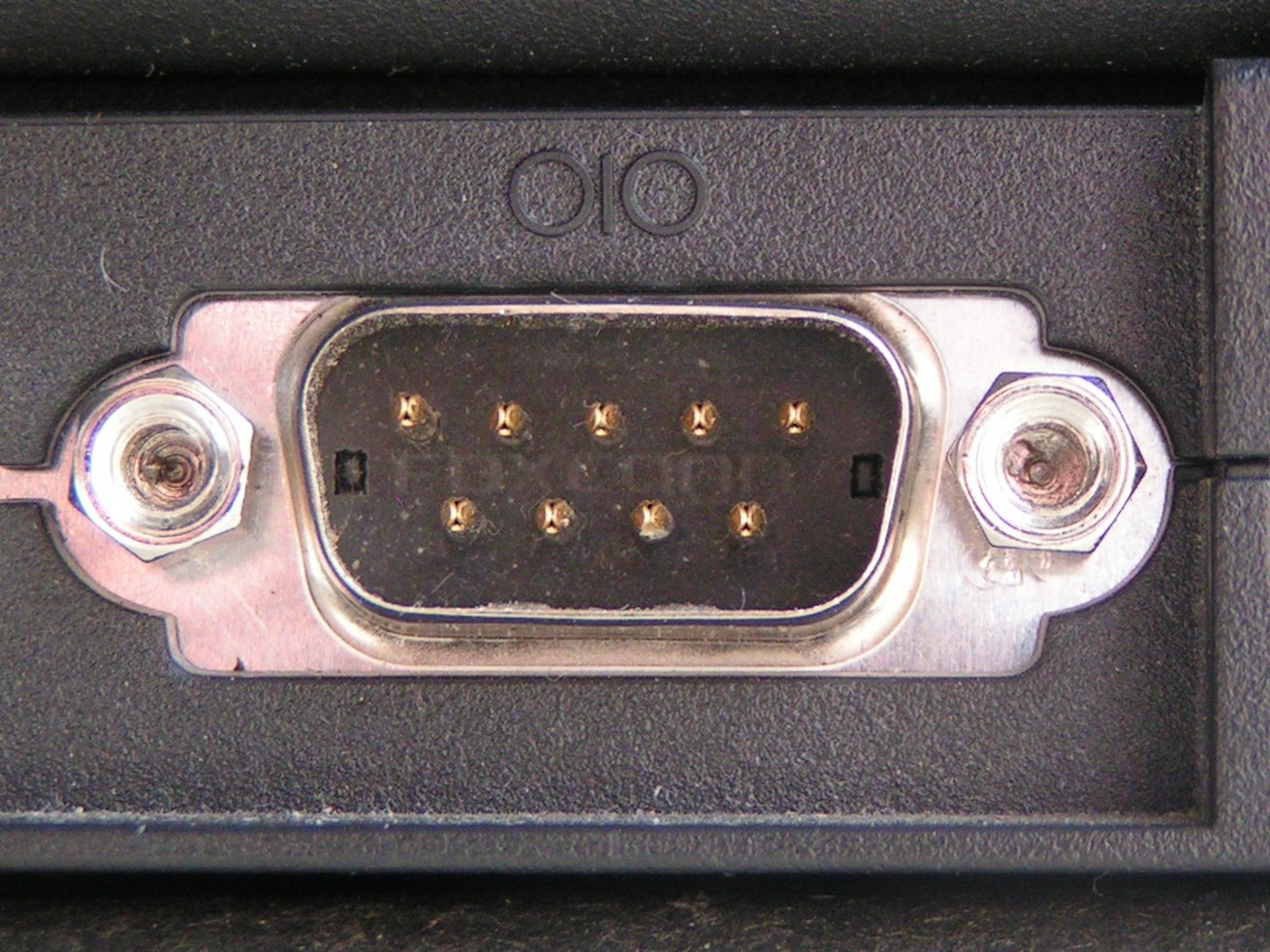 Serial Computer Port lol